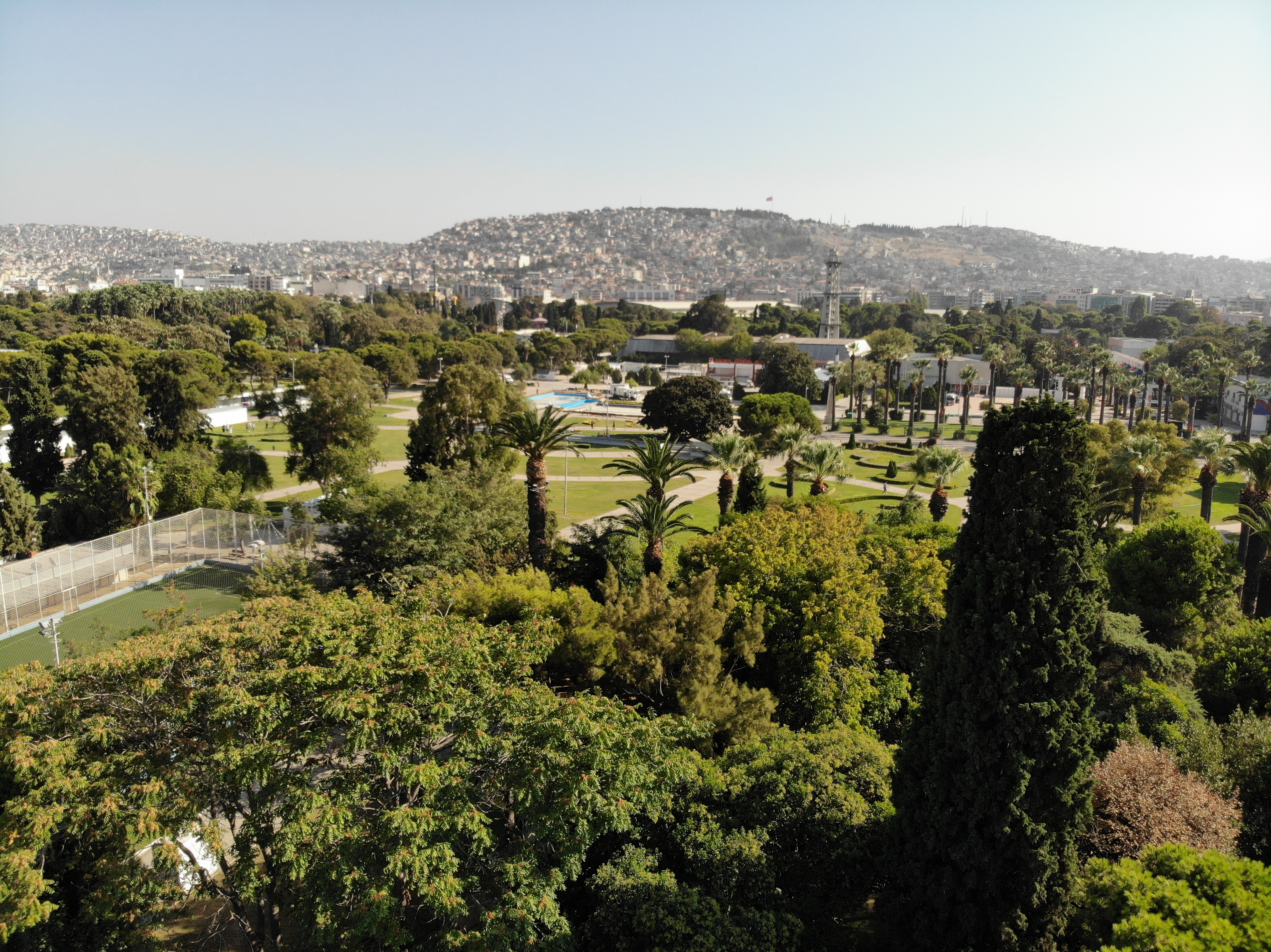 Aerial view of Kültürpark in İzmir, Turkey.